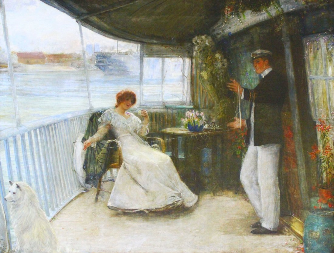 This oil on canvas painting depicts a yacht captain(likely Edwin Dennison Morgan and his wife Elizabeth Moran Morgan) on an open-air 'veranda' on the stern of their steam yacht likely 'May' . The captain is portrayed rolling up yarn. His beautiful wife lounges and holds the string taut in one hand and the ball in the other. The couple's dog, a Spitz, is drawn watching the off-canvas water to the left with the curve of its tail poking up from the bottom of the canvas. Through the slats of the guard rail a frigate can be seen. A cloud of smoke at its flank indicates a recent firing, possibly in salute to indicate a celebration of sorts. The artist's signature can be seen, if obscured, in the bottom left corner.